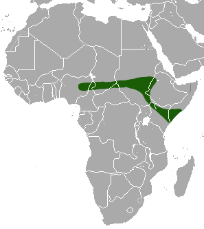 Yankari Shrew (Crocidura yankariensis) range